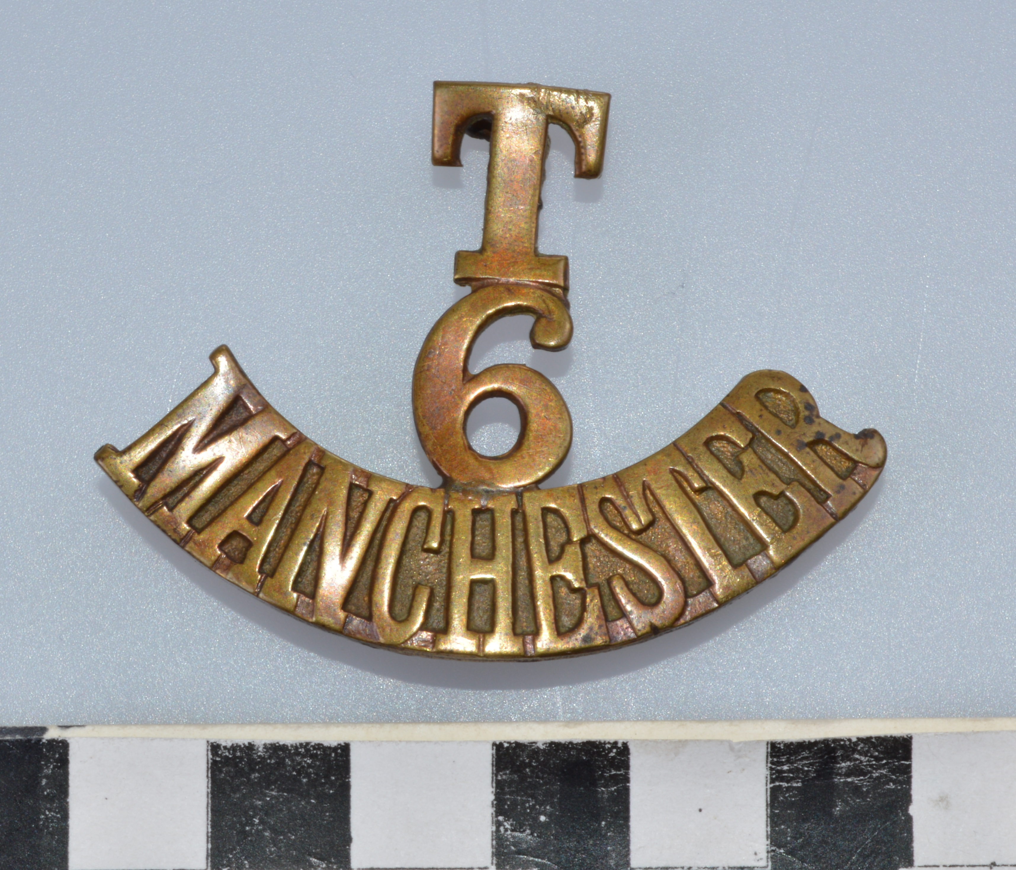 World War I 6th Territorial Battalion Manchester Regiment brass shoulder title. Badge is embossed MANCHESTER surmounted by a cut-out number 6 and that surmounted by a cut-out letter T.Title: World War I 6th Territorial Battalion Manchester Regiment Shoulder Title